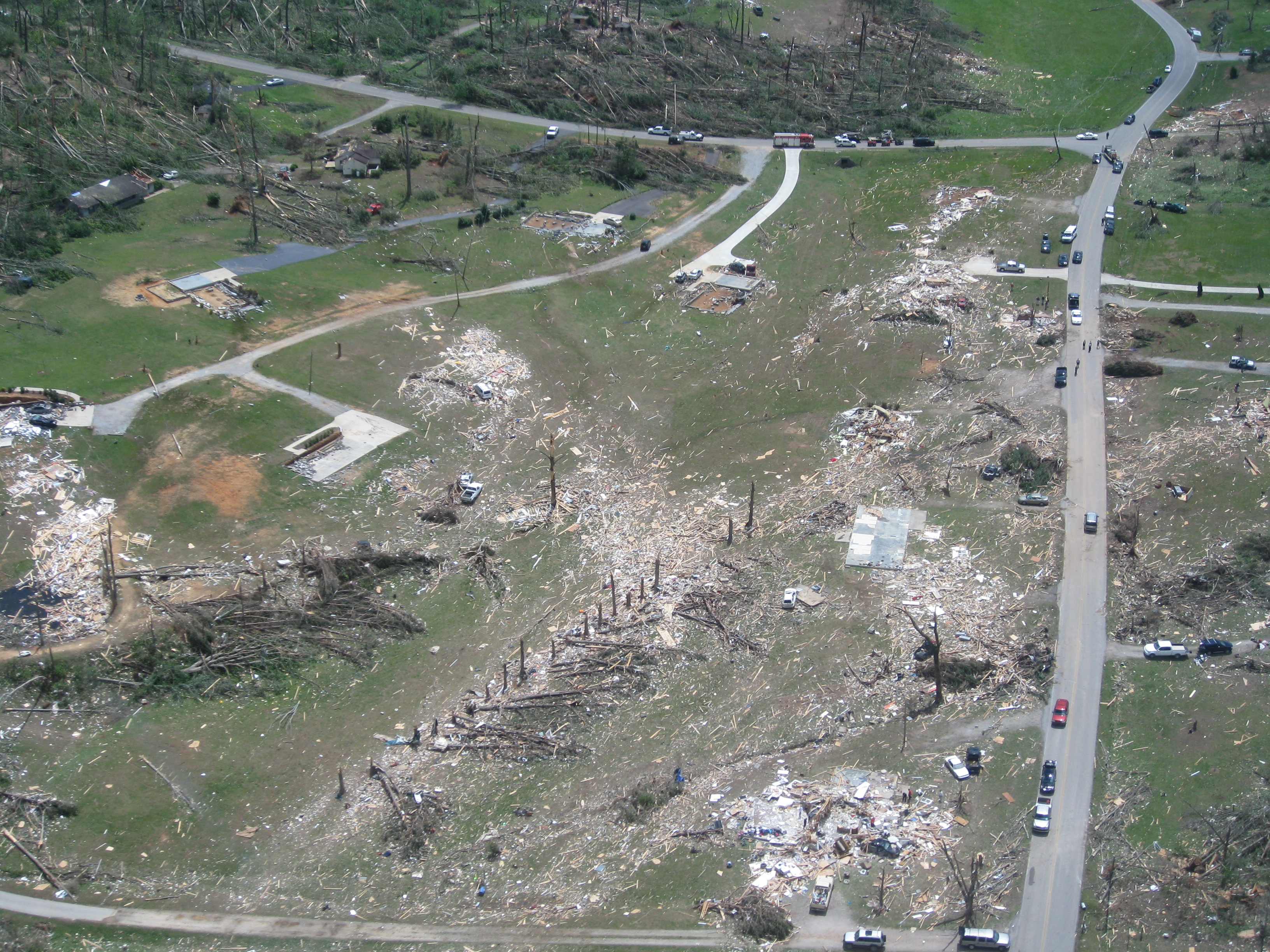 EF4-rated tornado damage in Ringgold, Georgia which occurred during the April 25–28, 2011 tornado outbreak. Damage occurred overnight on the 27th, photo taken the next day